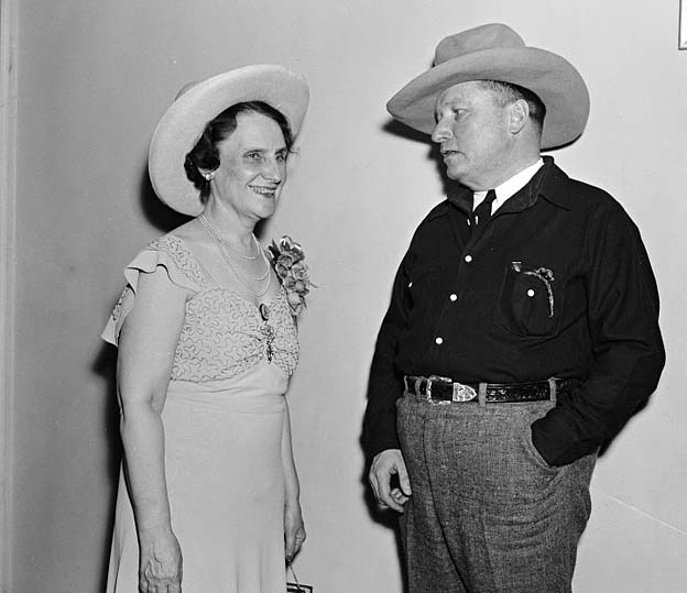 Former Wyoming Governor Nellie Tayloe Ross with Wyoming Representative Paul Ranous Greever at Wyoming Day dinner.